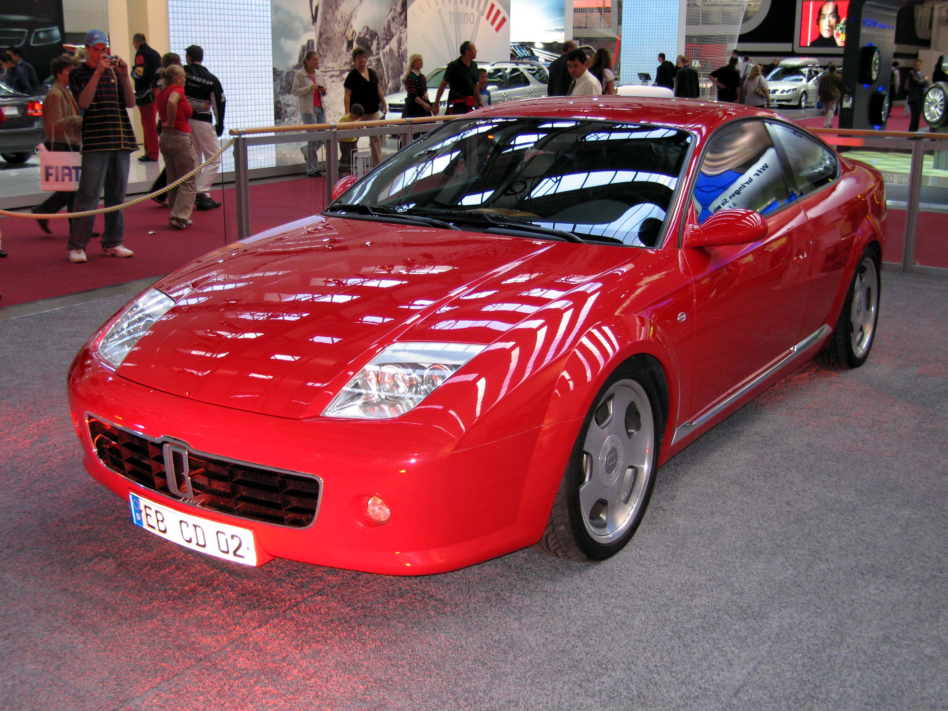 Bitter CD 2 at IAA 2005